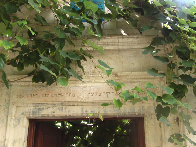 Chania_Synagogue. Credit: Courtesy of Arie Darzi to memorialize the Jewish community in Greece.